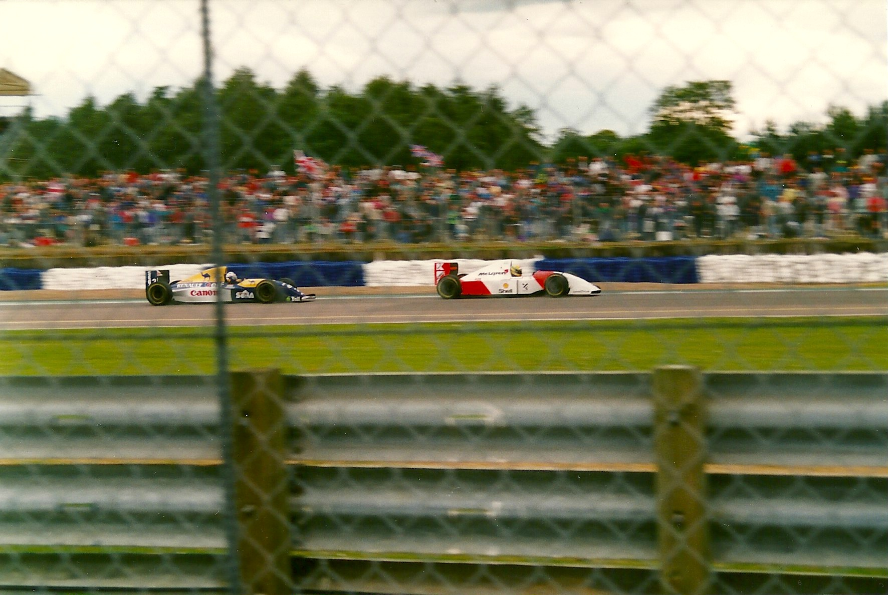 British Grand Prix 1993